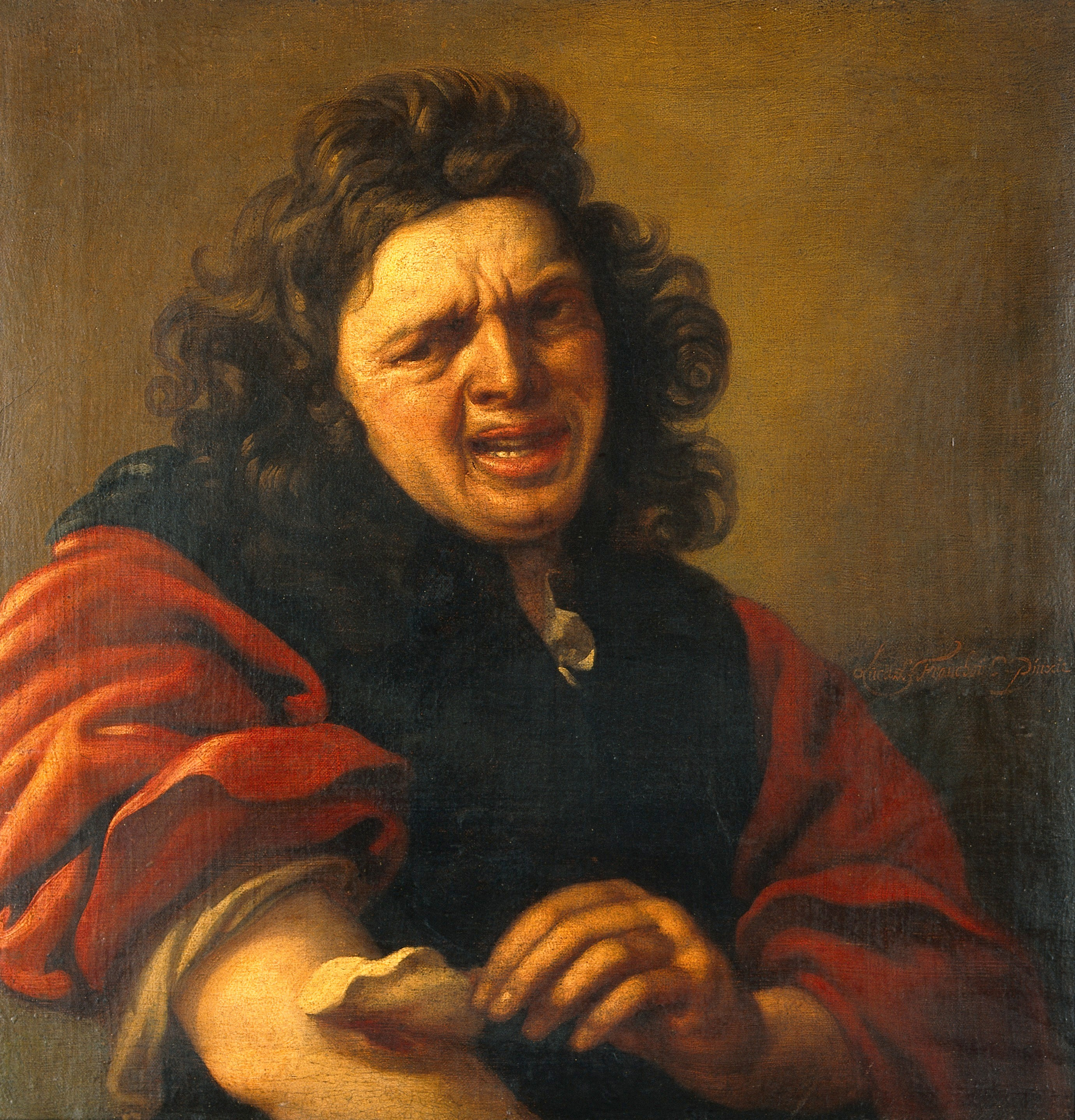 A man removing a plaster; representing the sense of touch. Oil painting. Iconographic Collections Keywords: Senses; Pain; Plaster; Lucas Franchoys; Allegory; Man